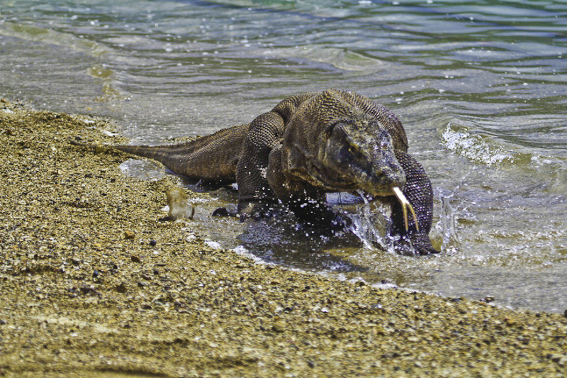 Komodo dragon at Komodo National Park, Indonesia